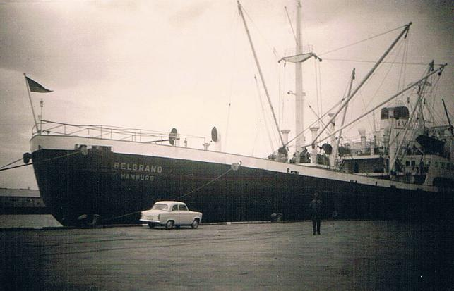 German cargo motor ship Belgrano of the Rudolf A. Oetker (RAO) shipping company, Hamburg - Port Adelaide in November 1959